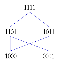 Shows a directed set (i.e. each two members have a common upper bound) w.r.t. the partial order "bitwise ≤" on 4-bit numbers, which is not a join-semilattice (since 1000 and 0001 have no least common upper bound).